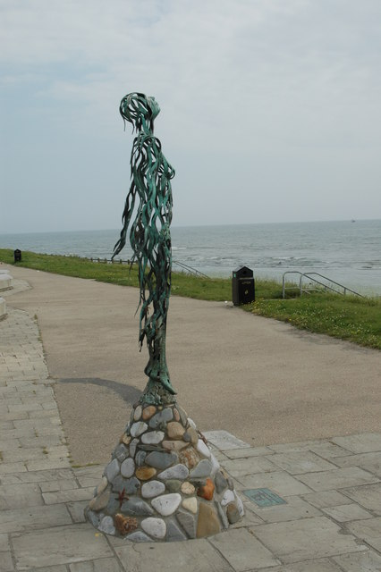 Statue "Voyager" in Layton, County Meath, Ireland. By Linda Brunker, unveiled 2004